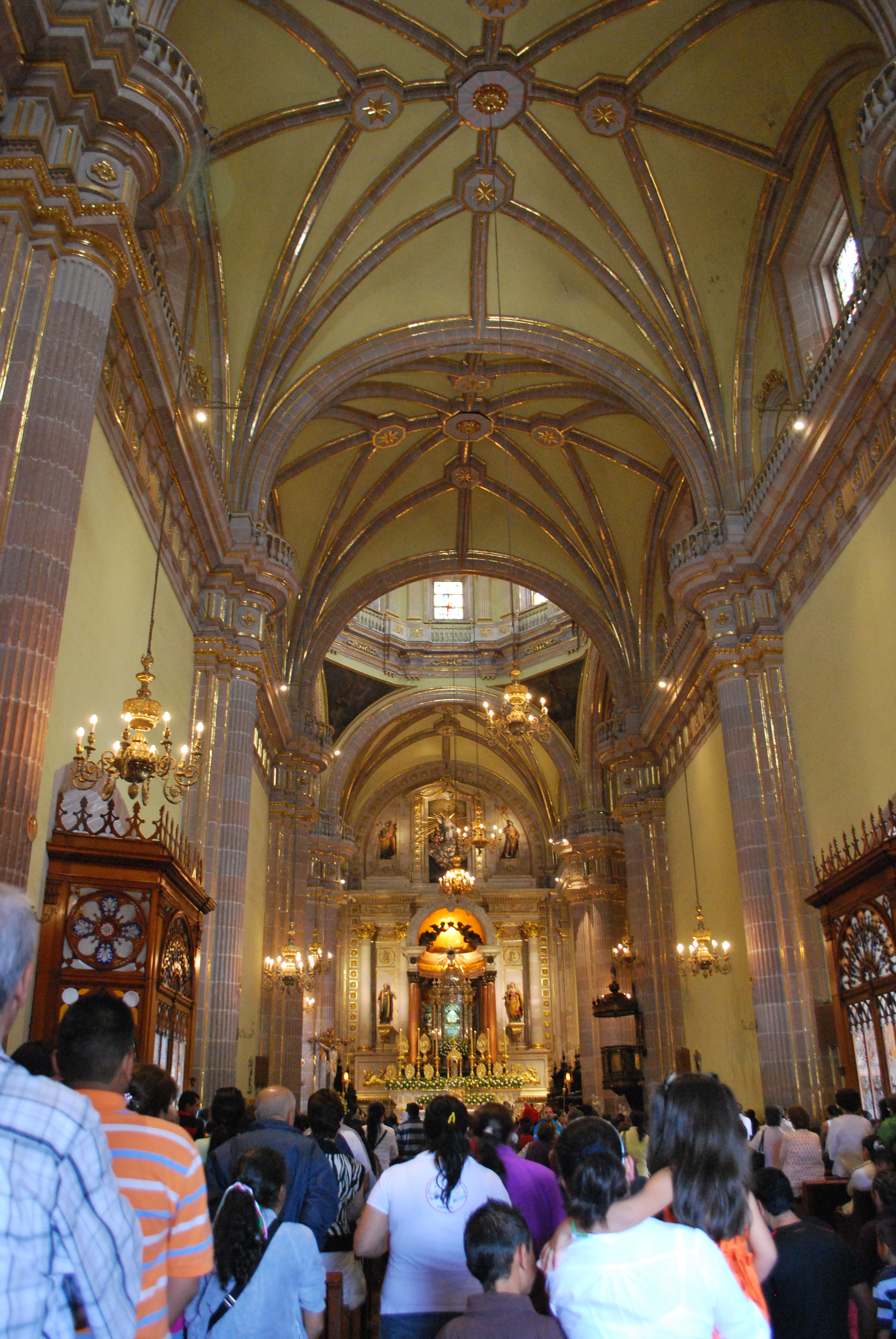 Nave of the basilica/cathedral of San Juan de los Lagos, Mexico